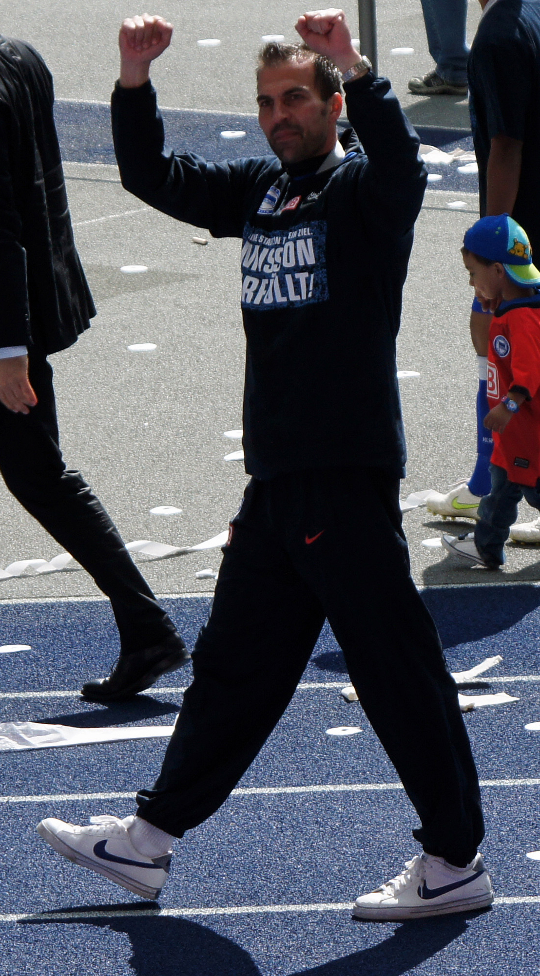 Markus Babbel while managing Hertha Berlin in 2011.